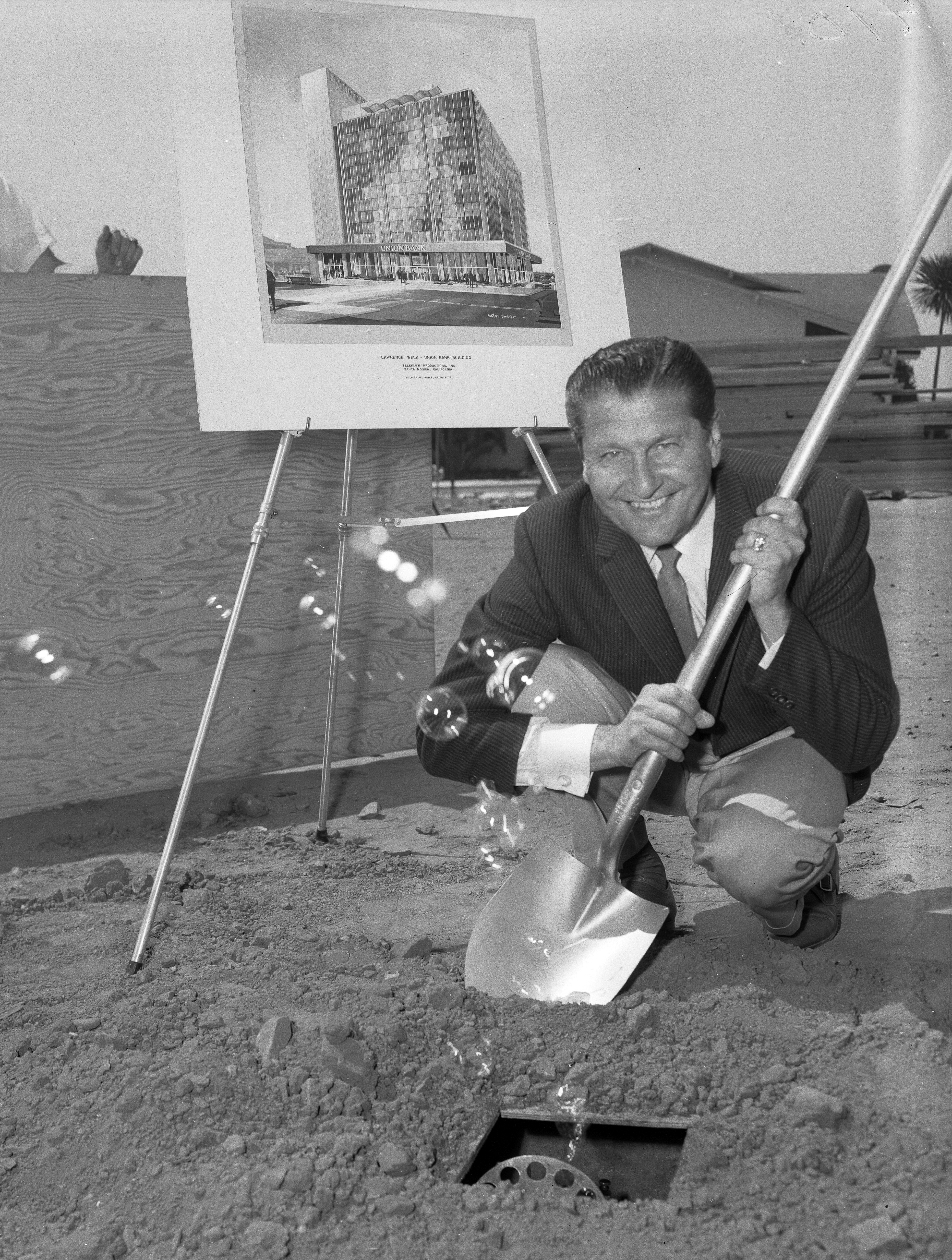 Bandleader Lawrence Welk at ground breaking for the new Union Bank in Santa Monica, Calif., 1960; Published caption: SURPRISE-Bandleader Lawrence Welk watches in amazement as bubbles spout from a hole during ground breaking for the new Union Bank in Santa Monica. Bank members planted bubble machine.